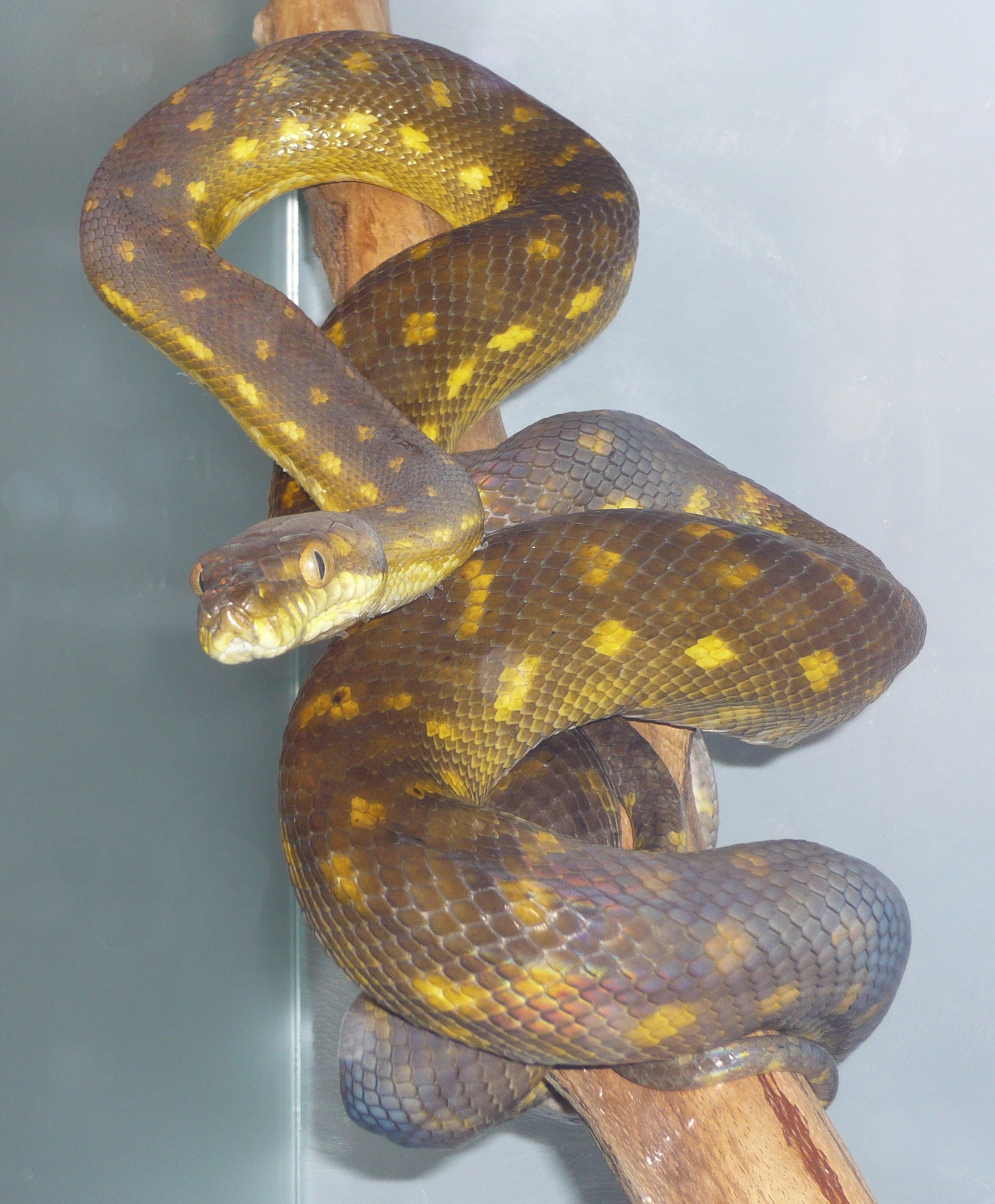 Tanimbar Scrub-Python (Morelia nauta), xanthic morph This specimen lieves in captivity (Andreas Ballaman, Switzerland)